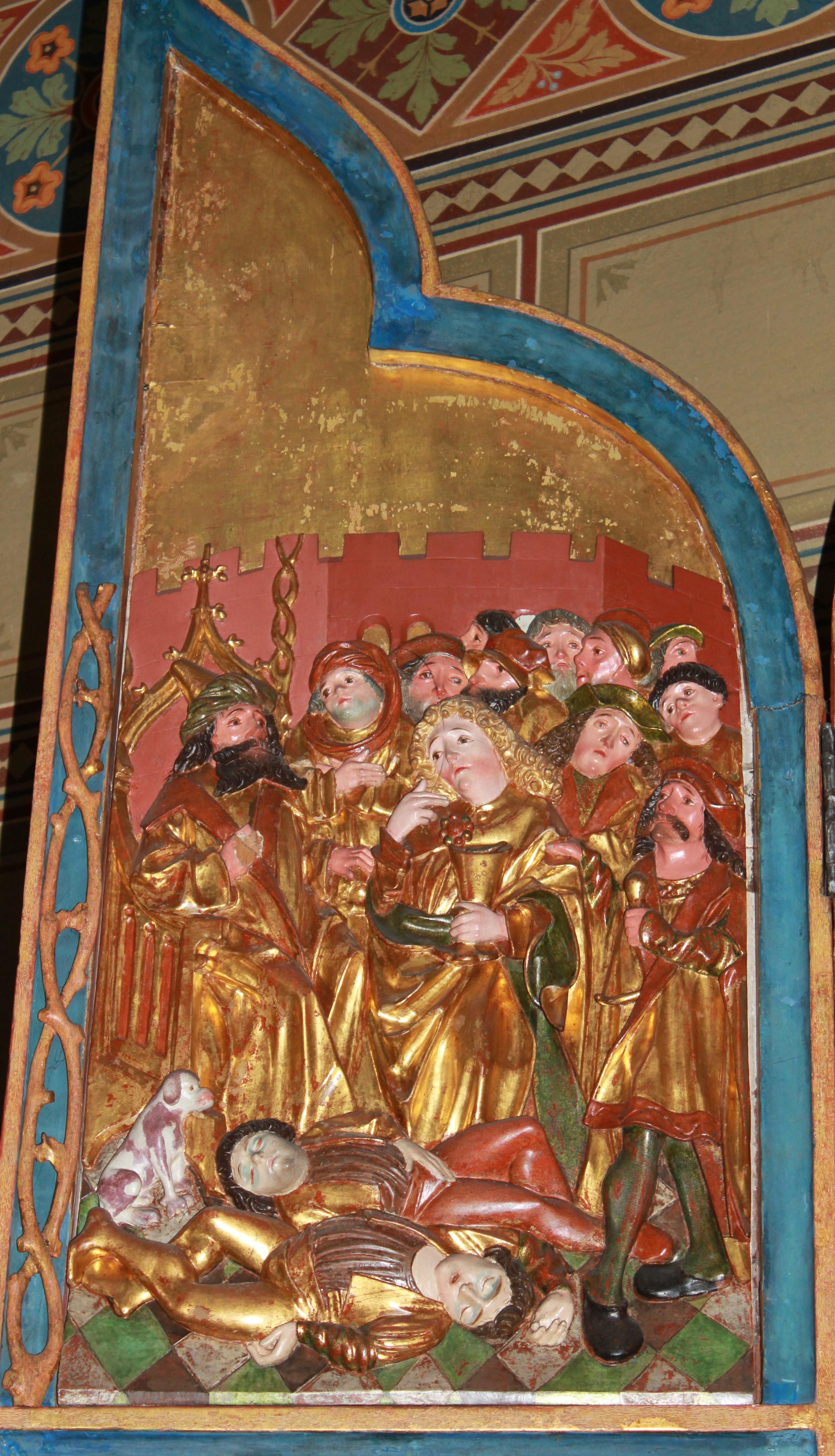 Dominican-Order-church in Friesach: Saint-John-altar: Poison-test in Ephesus